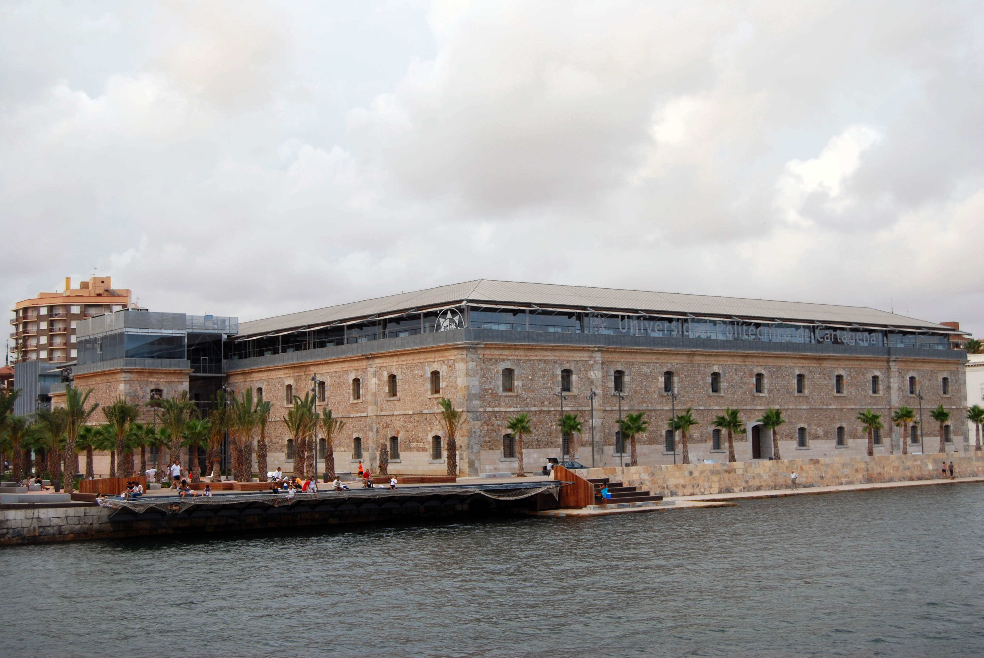 The Seamanship Instruction Barracks, current headquarters of the Faculty of Business Sciences of the Polytechnic University of Cartagena (Region of Murcia, Spain).